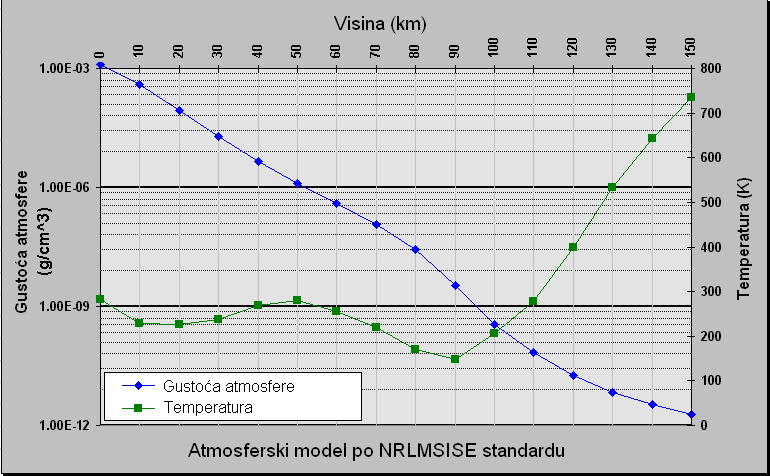 Atmosferski moedal, description page is/was here